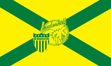 The official city flag of Lauderhill, Florida, consisting of a green and yellow version of the city seal set on a green saltire with yellow background. Image courtesy of Leslie Tropepe, the Operations Manager of the City of Lauderhill.